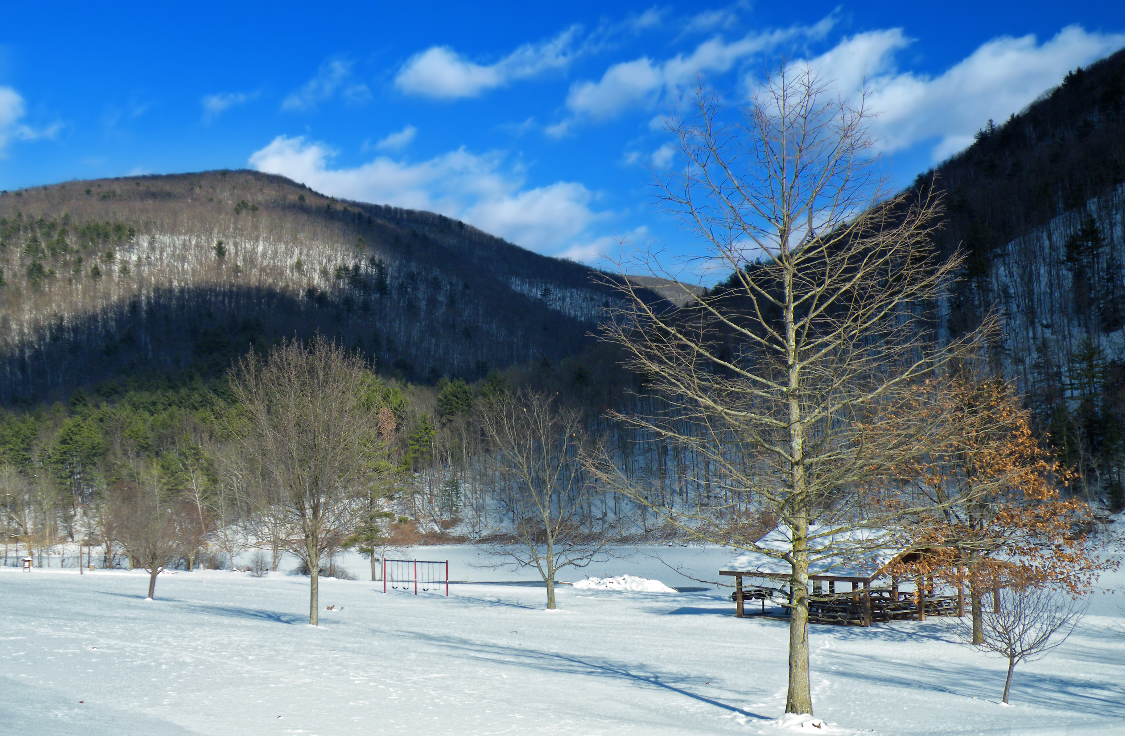 Picnic area, playground and lake in winter at Little Pine State Park, Cummings Township, Lycoming County.